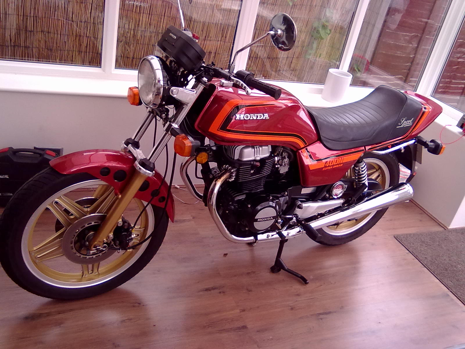 Red Honda CB400N (1982)